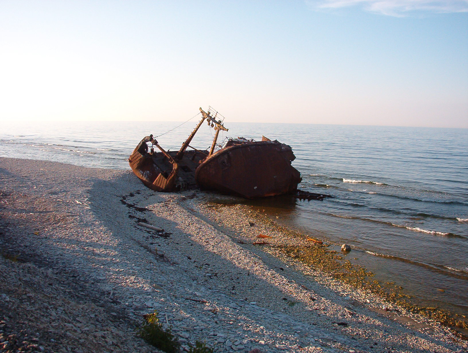 Shipwreck at eastern coast of Osmussaar